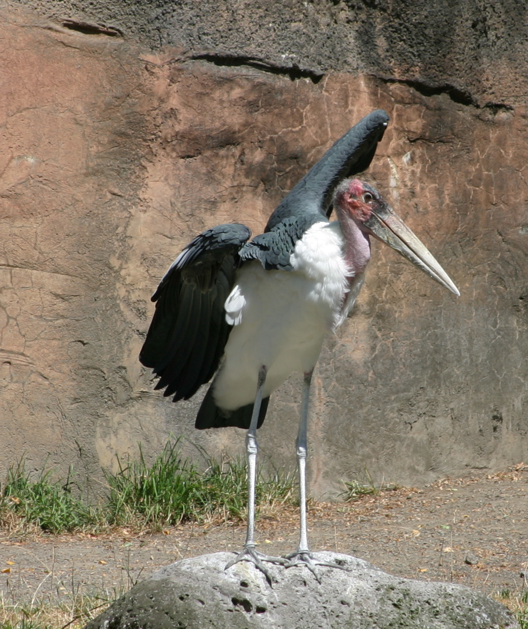 Marabou Stork (Leptoptilos crumeniferus) in the Oregon Zoo